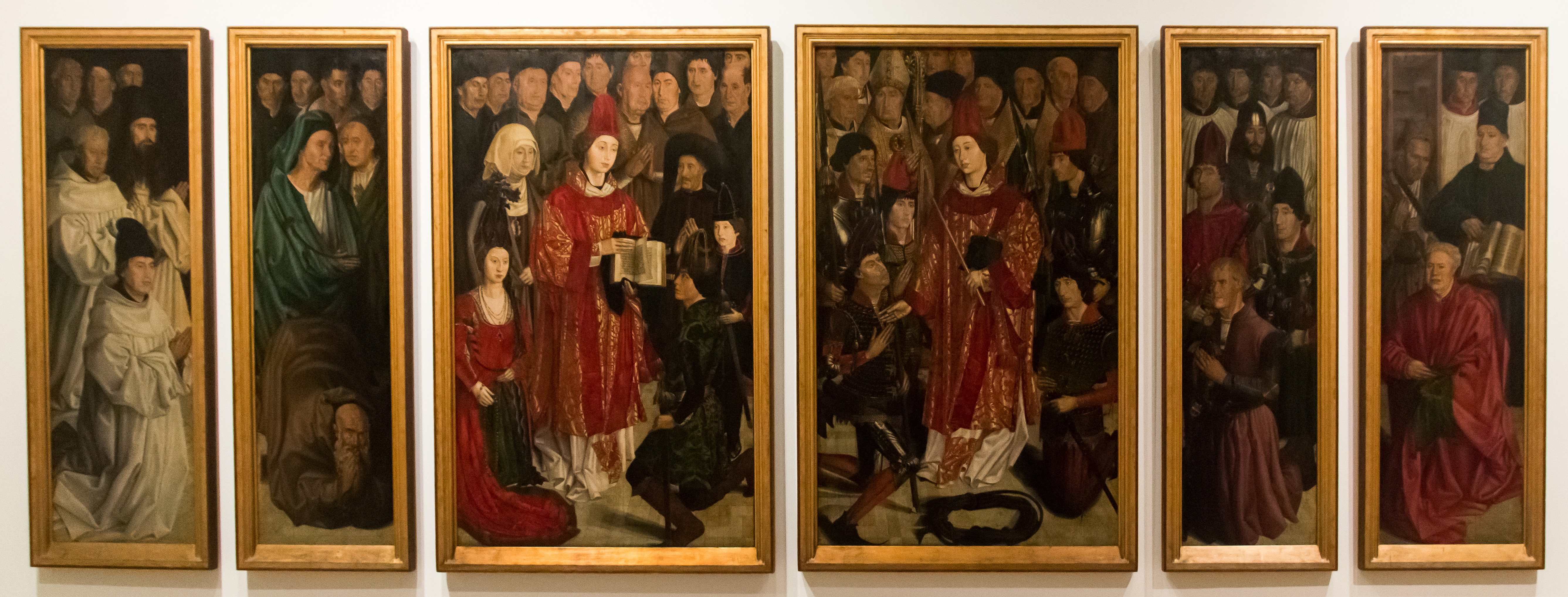 Panel of Monks, of theSinners, of the Infant, of the Archbishop, of the Knights and the Relic.